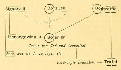 Diagram of the Signorelli mistake, Freud, Zur Psychopathologie, 1904 (first edition in book form)